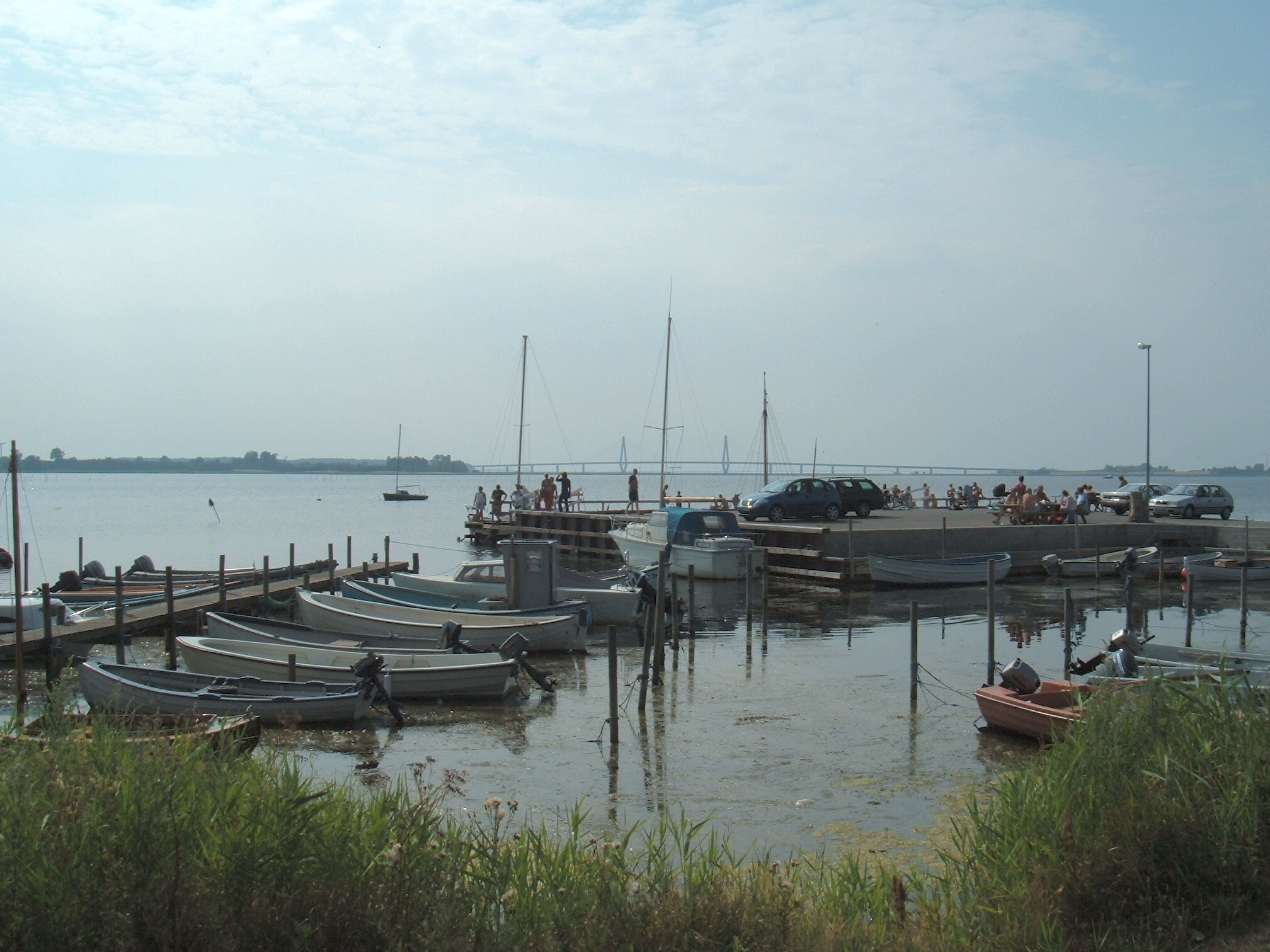 Skåningebro. Bathing jetty and small harbour on the north side of the island of Bogø, south eastern Denmark. In the background, the Farø bridge. Taken by contributor, July 2006.